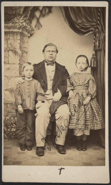 Photograph of the Finnish editor and poet Paavo Tikkanen (1823–1873).